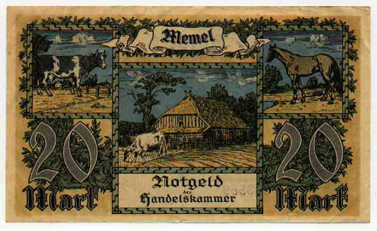 Memel, 20 marks published in 1922